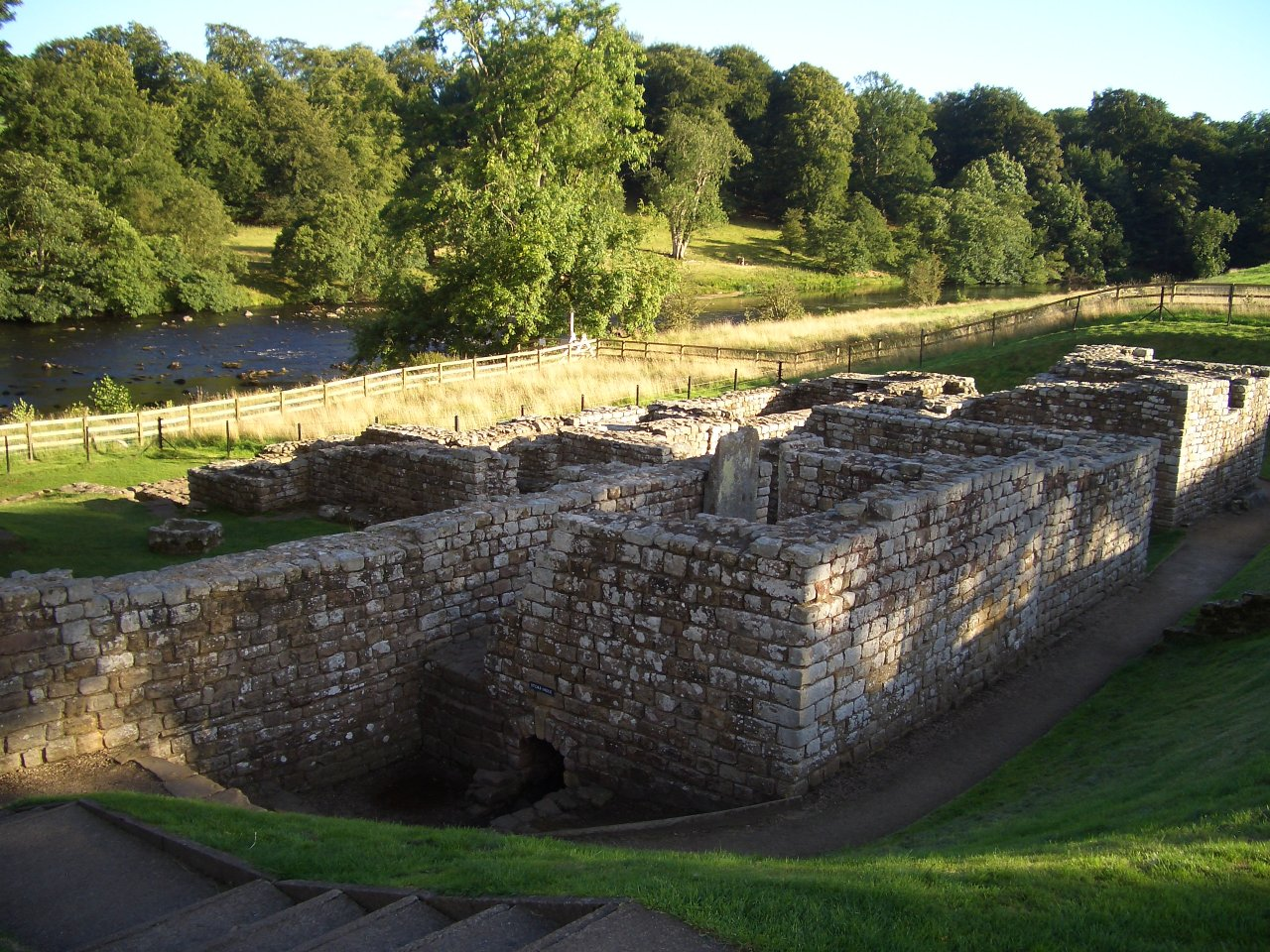 Remains of the bathhouse of the Chesters milecastle.